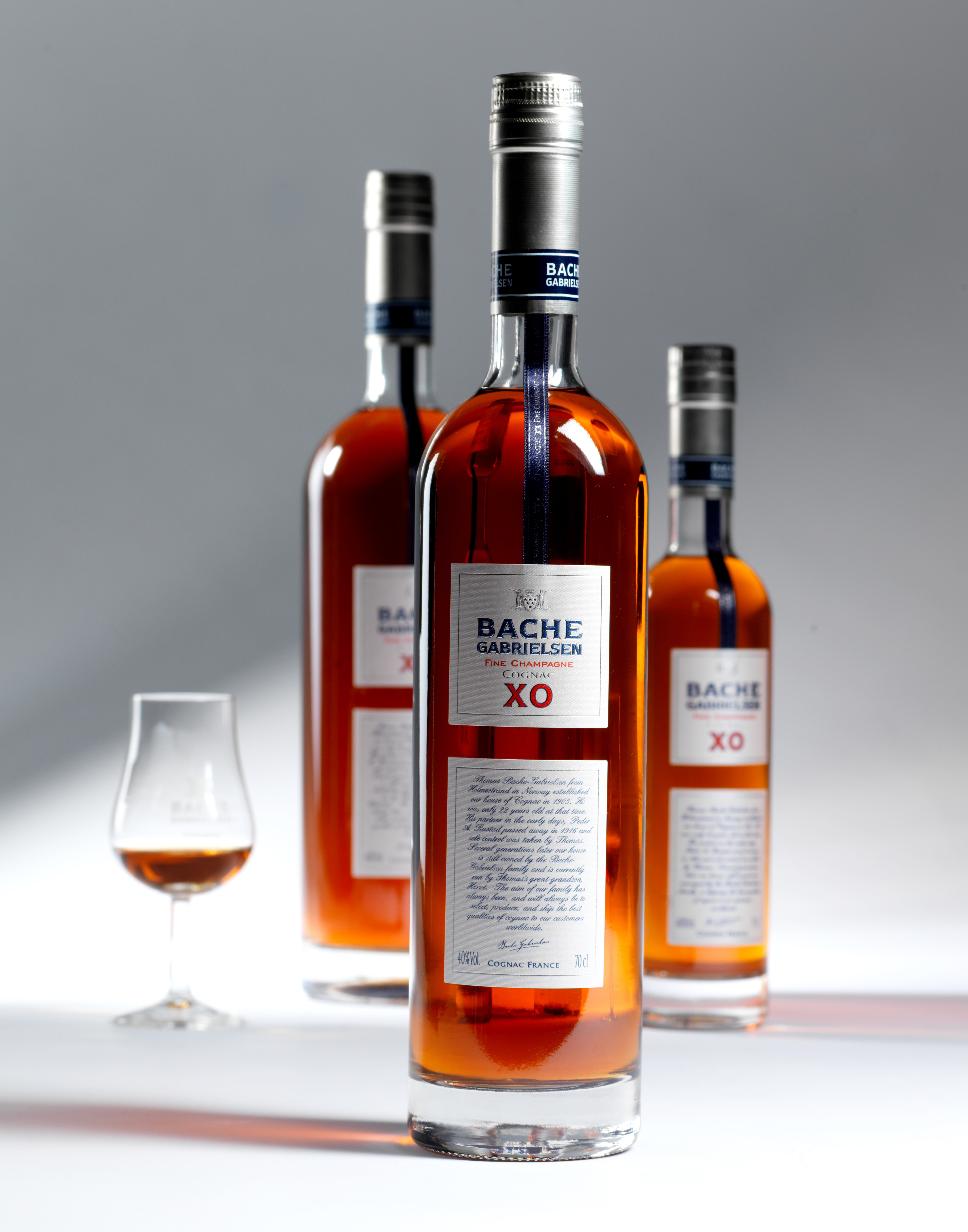 Bache-GAbrielsen XO